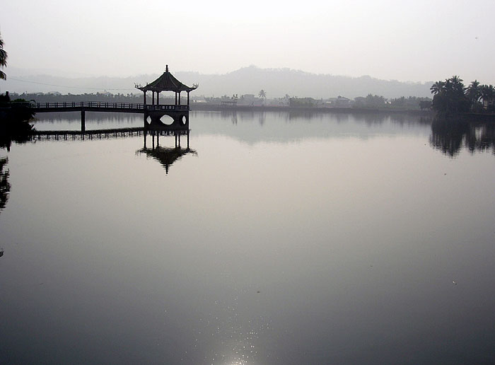 Chong Chieng Lake, Meinong, Kaohsiung, Taiwan